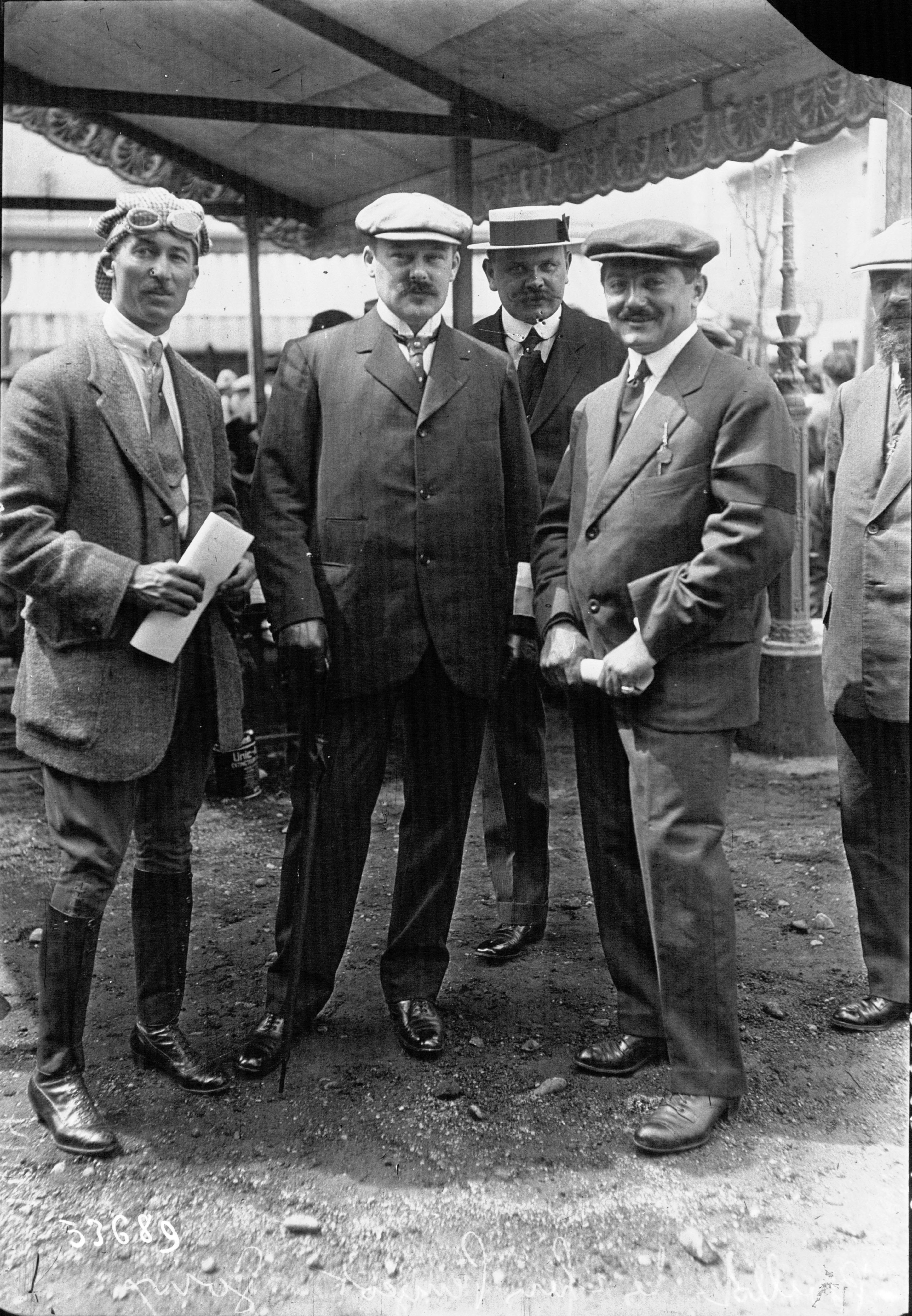 Robert Peugeot, Georges Boillot and Jules Goux at the 1914 French Grand Prix